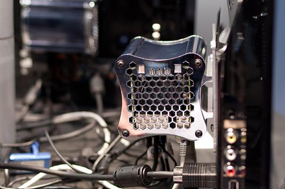 xi3 modular computer